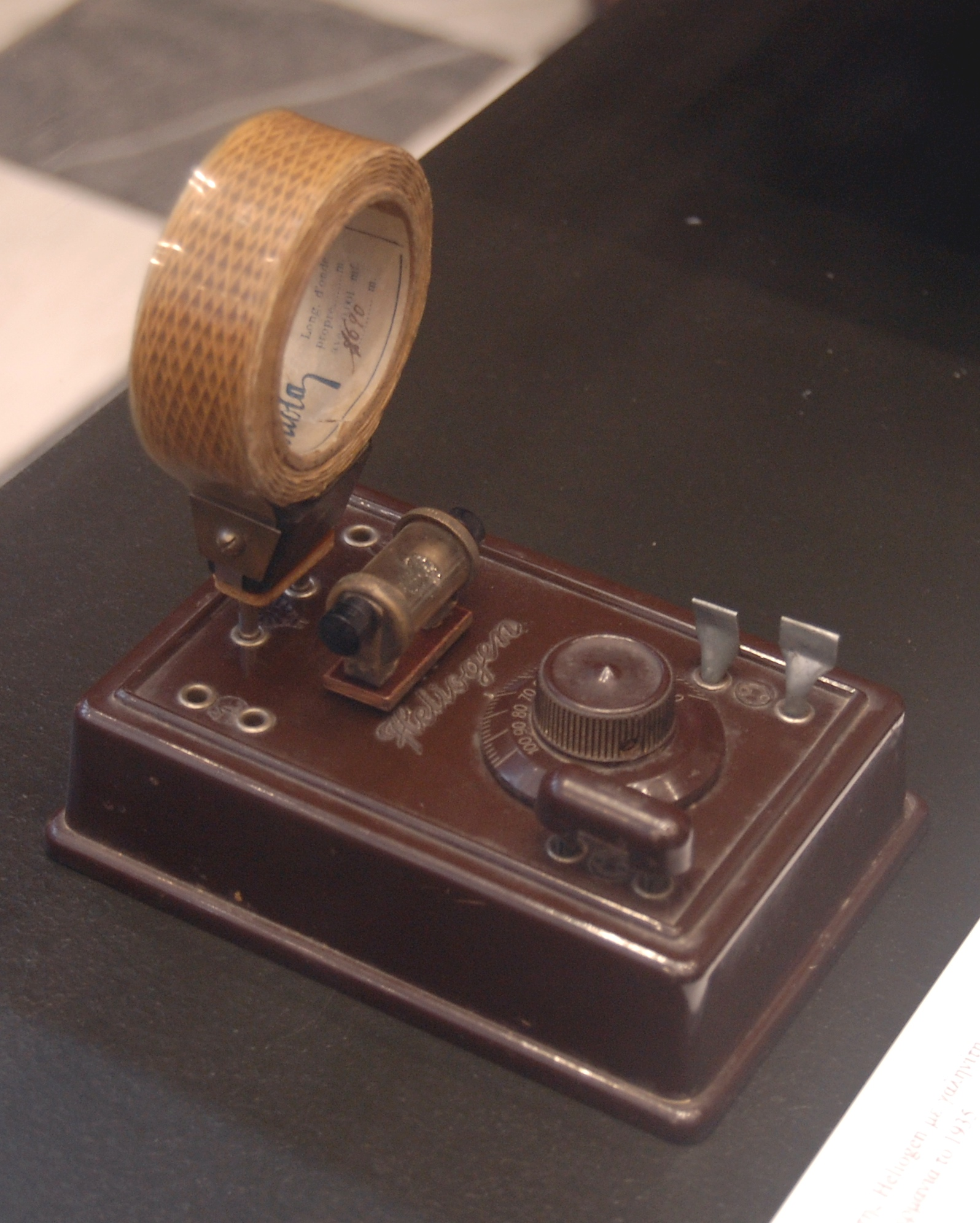 A medium wave crystal radio receiver, manufactured by Heliogen in Germany, 1935. The coil of wire (left) is the tuning coil. It can be unplugged and replaced with different coils to cover different radio bands. It is wound in a "basket-weave" pattern to reduce resistance at radio frequencies. In front of it in the glass tube is the cat's whisker detector, consisting of a crystal of galena touched by a fine wire, which extracts the audio signal from the radio frequency carrier wave. In front of that is the tuning knob, connected to an adjustable capacitor which is used to tune in different stations.